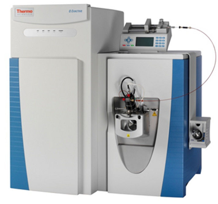 Thermo Scientific Orbitrap Elite Mass Spectrometer